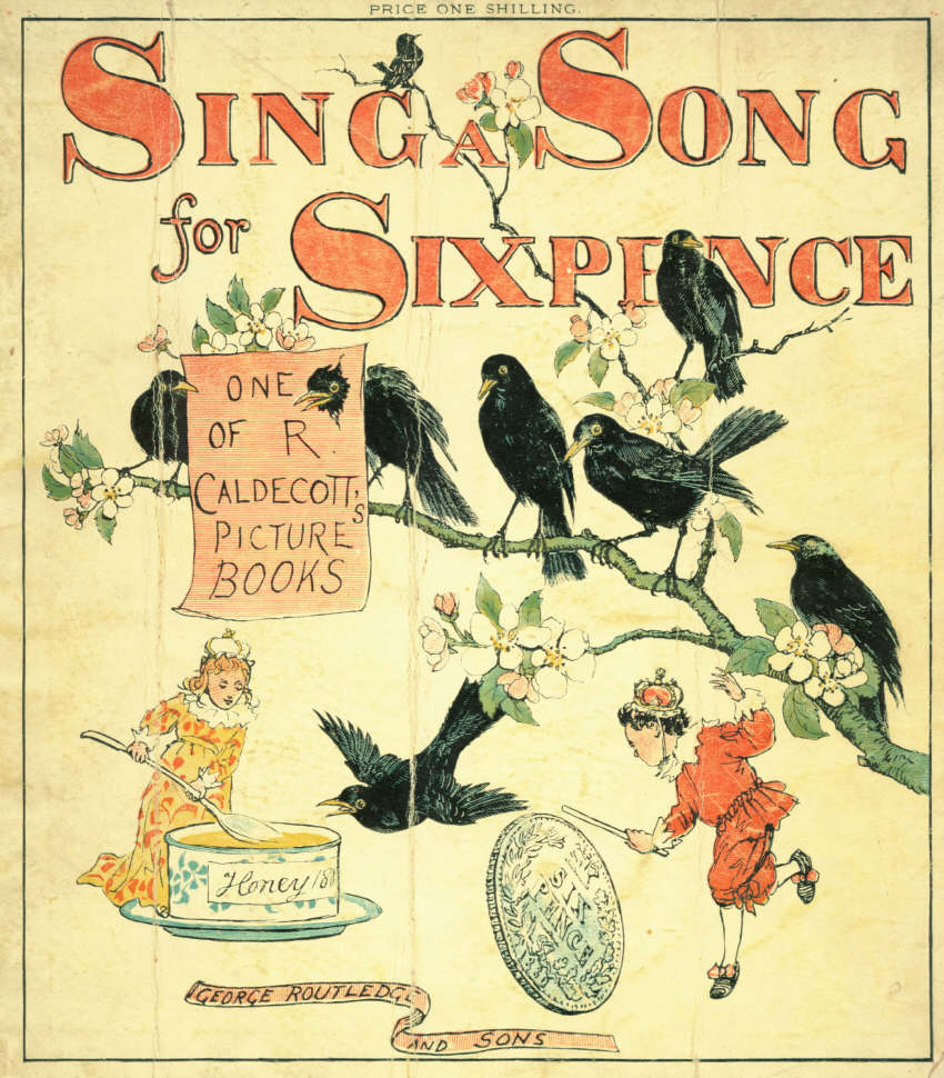 Illustration from Sing a Song for Sixpence (1880) by Randolph Caldecott (d. 1886)